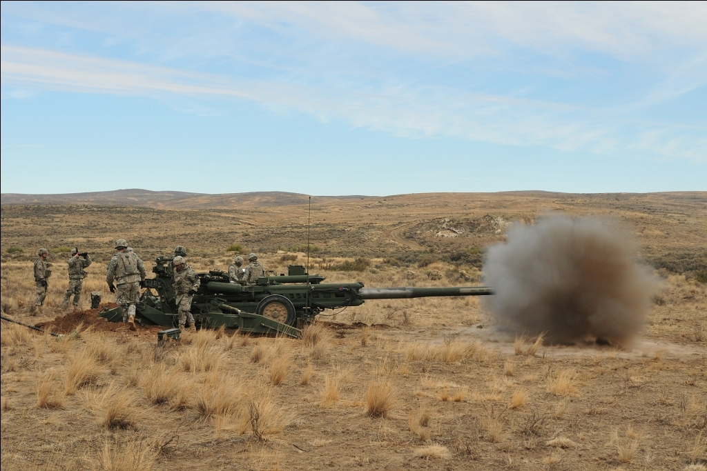 Soldiers with Battery B, 2nd Battalion, 12th Field Artillery Regiment, fire their M777 155 mm Howitzer Oct. 13 during a direct fire exercise. Soldiers of the battalion, assigned to 4th Stryker Brigade Combat Team, 2nd Infantry Division, utilized their direct fire skills to hit targets visibly in front of their position.